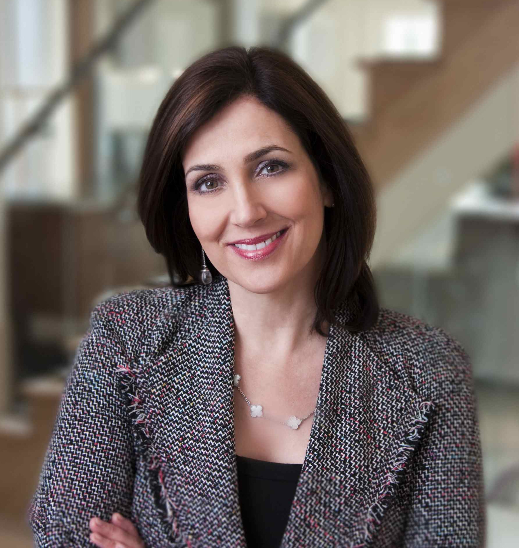 Joanna Shields, an American-British business executive, entrepreneur and investor.